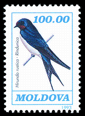 Stamp of Moldova